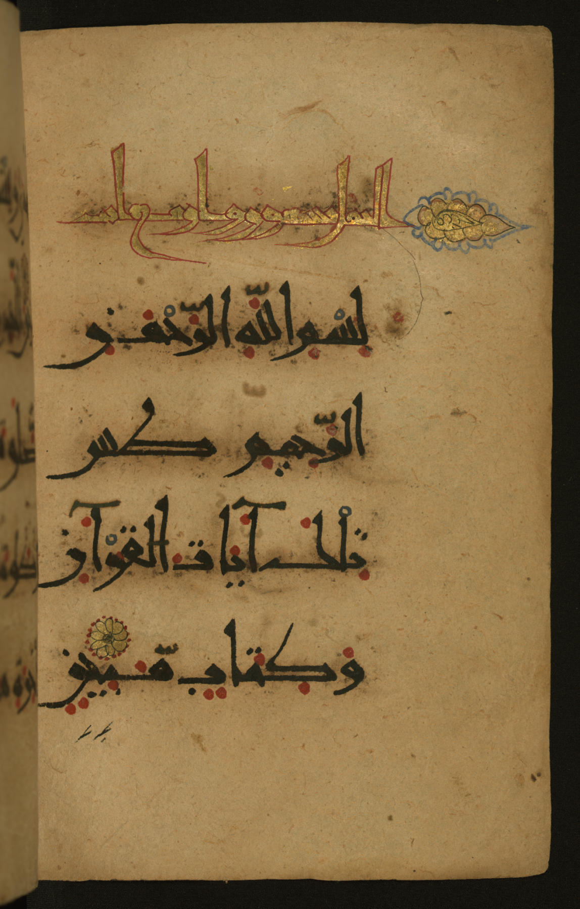 This folio from Walters manuscript W.555 contains a chapter heading executed in gold ink with a red outline, from which extends a small palmette outlined in red and blue.